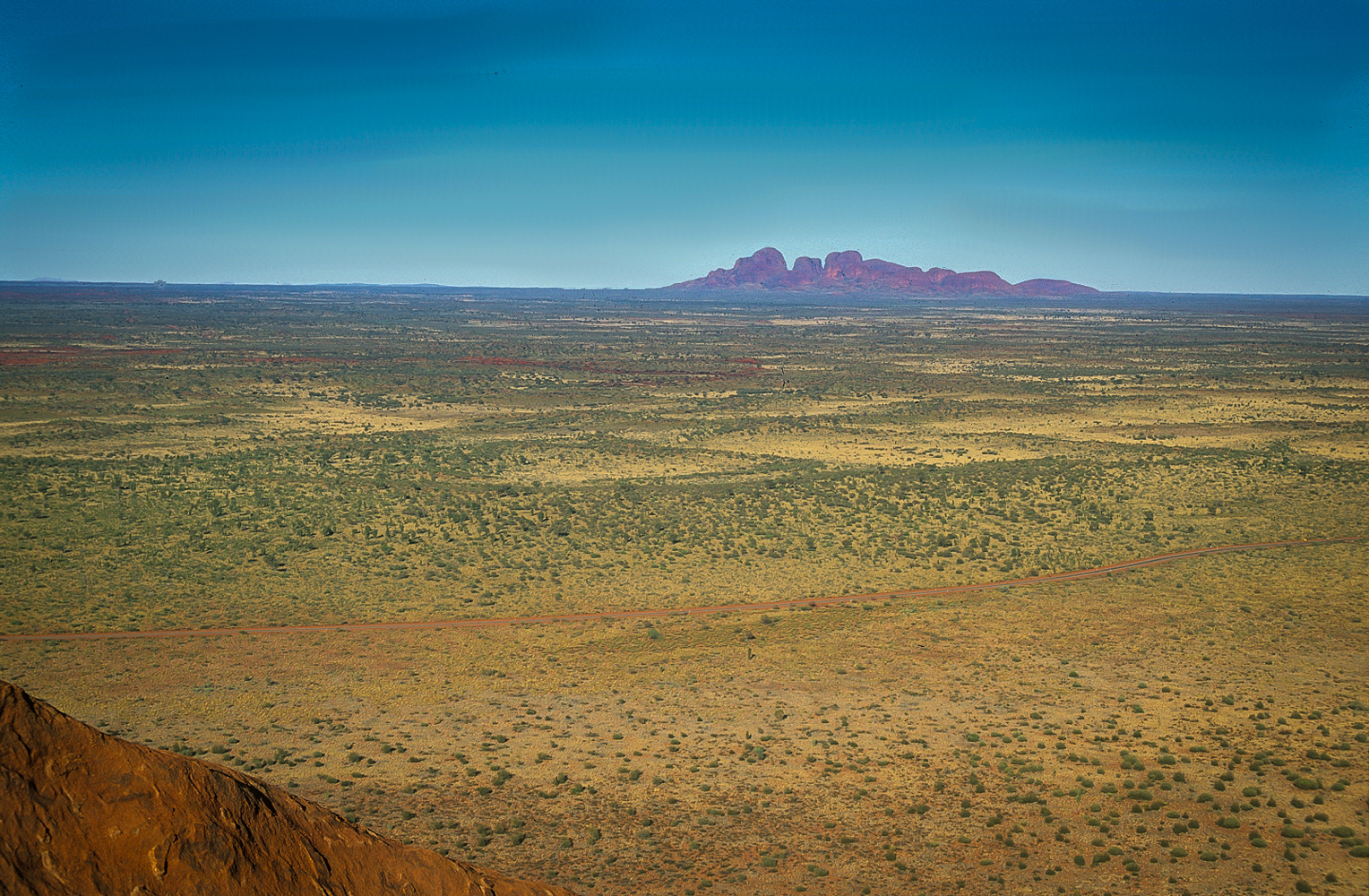 Kata Tjuṯa - Mount Olga - View from Ayers Rock